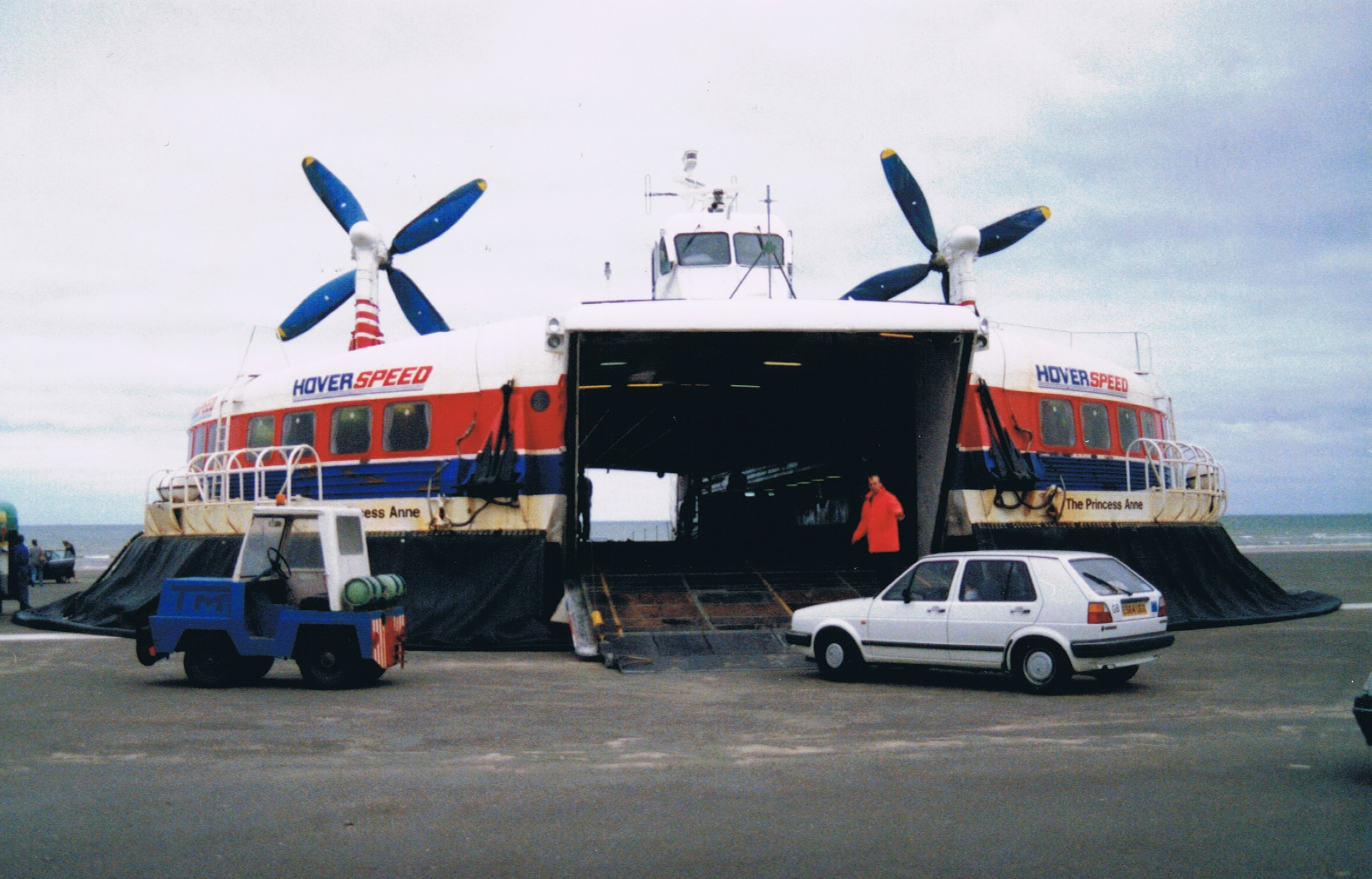 SRN4 Mountbatten Class Hovercraft Princess Anne ferry loading Golf